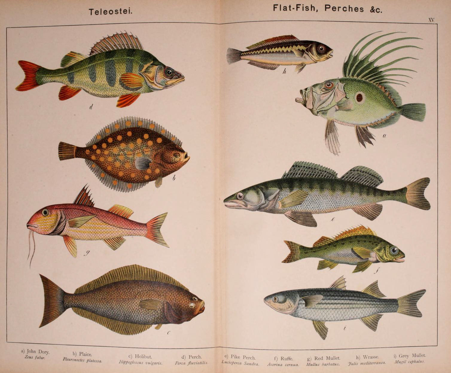 Teleostei. Fiat-Fish, Perches &c. a) John Dorj' 2eus fabv. b) Plaice. Pkuronectes platessa. c) Holihut d) Perch. e) Pike Perch. llippoglossus vulgaris. Ferca fluviatilis. Luchperca Sandra. fj Ruffe. Acerina cernua. gj Red Mullet. MuUus barbatus. h^ Wra.sse. Julis miditerranea. i) Grey Mullet Mugil cephaius